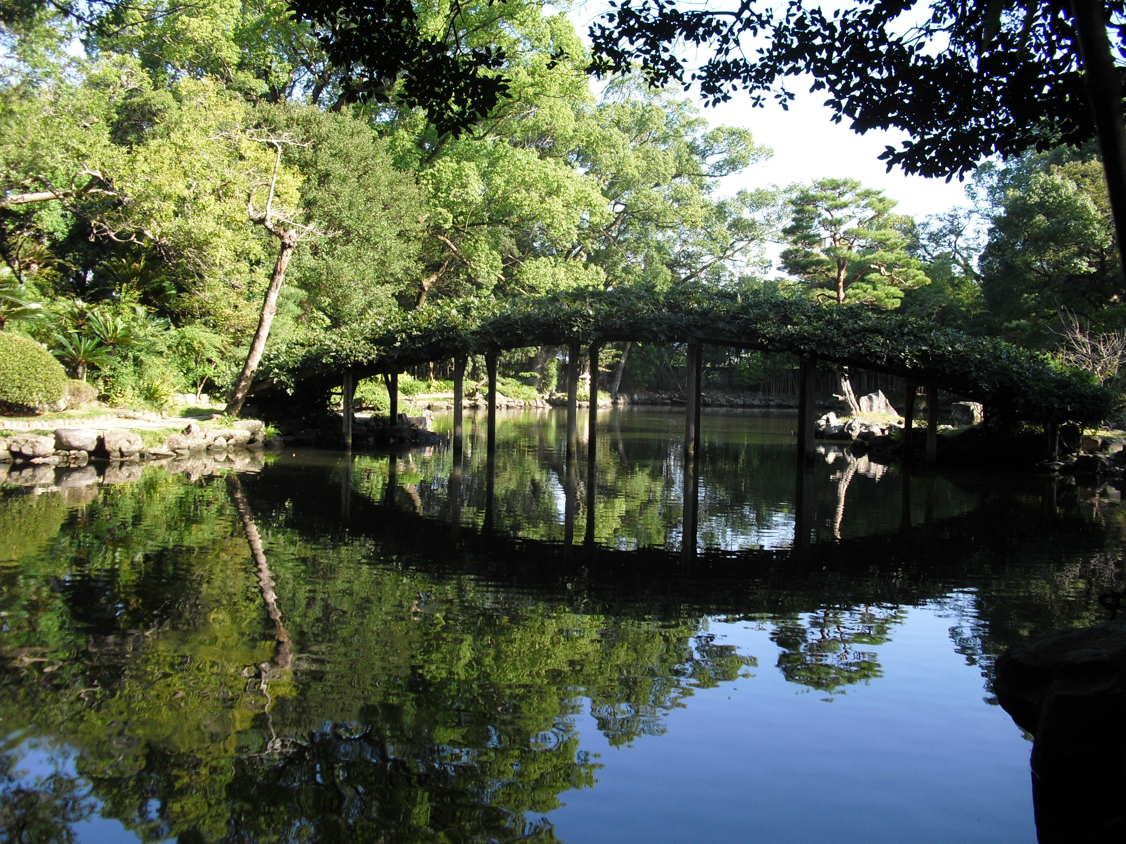 Tenshaen